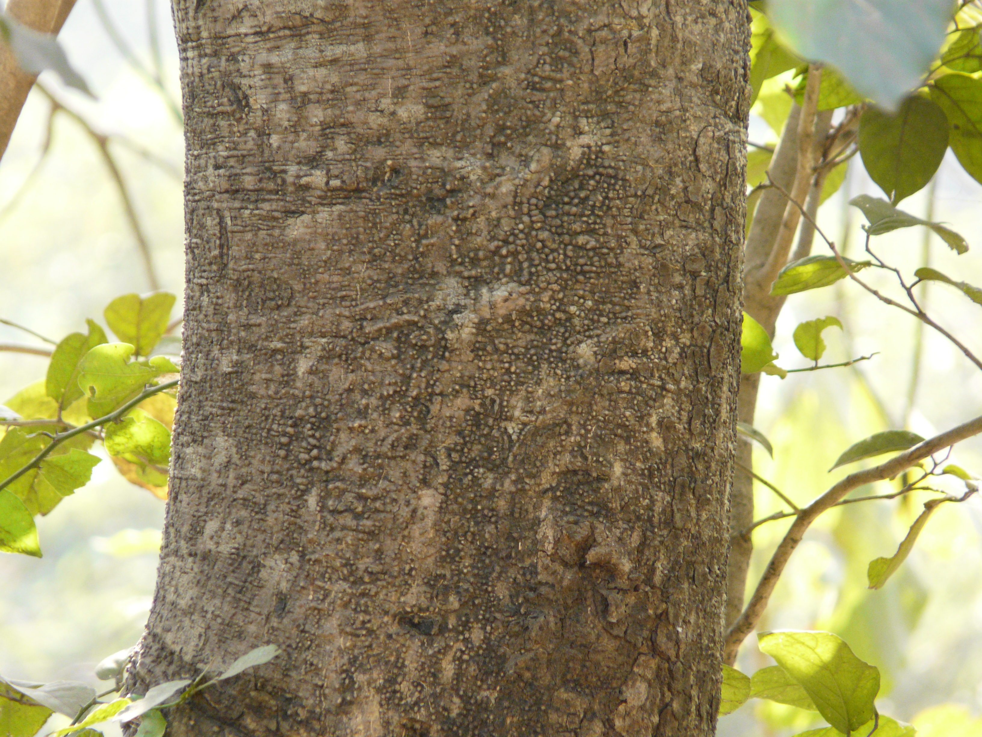 Capparaceae (caper family) » Crateva religiosa KRAY-tev-a -- named for Kratevas, Greek herbalist, renowned for his skill in poisoning re-lij-ee-OH-suh -- meaning, sacred commonly known as: garlic pear, obtuse leaf crateva, spider tree, temple plant, three-leaf caper • Bengali: বরুণ baruna • Hindi: बर्ना barna, बर्नी barni • Kannada: nirvala • Malayalam: nir mathalam • Manipuri: loiyumba lei • Marathi: बिल्व bilwa, वरुण varun, वायवरणा vaywaran • Sanskrit: वरण varan, वरुण varun • Tamil: மாவிலிங்கம் marvilingam • Telugu: ఉలిమిడి ulimidi, వరుణ varuna, voolemara Origin: Southeast Asia, Japan, Australia, south Pacific islands References: Flowers of India • Dave's Garden • EcoPort • Wikipedia